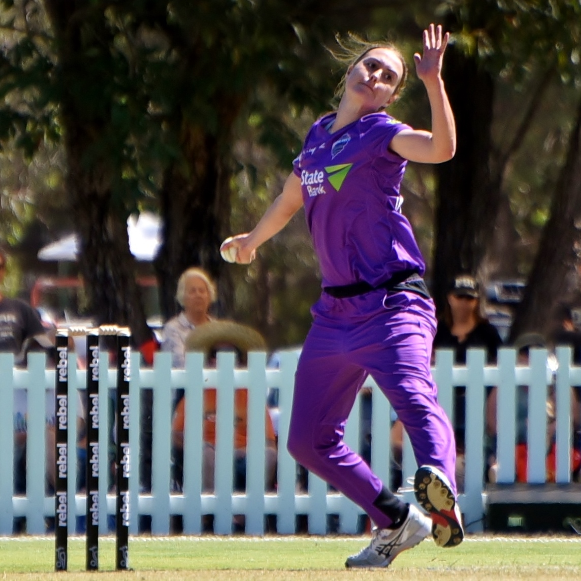 Hobart Hurricanes bowler Tayla Vlaeminck bowling against the Perth Scorchers, in a WBBL match at Lilac Hill Park in Perth.